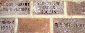 SSS brick by torchbearer statue